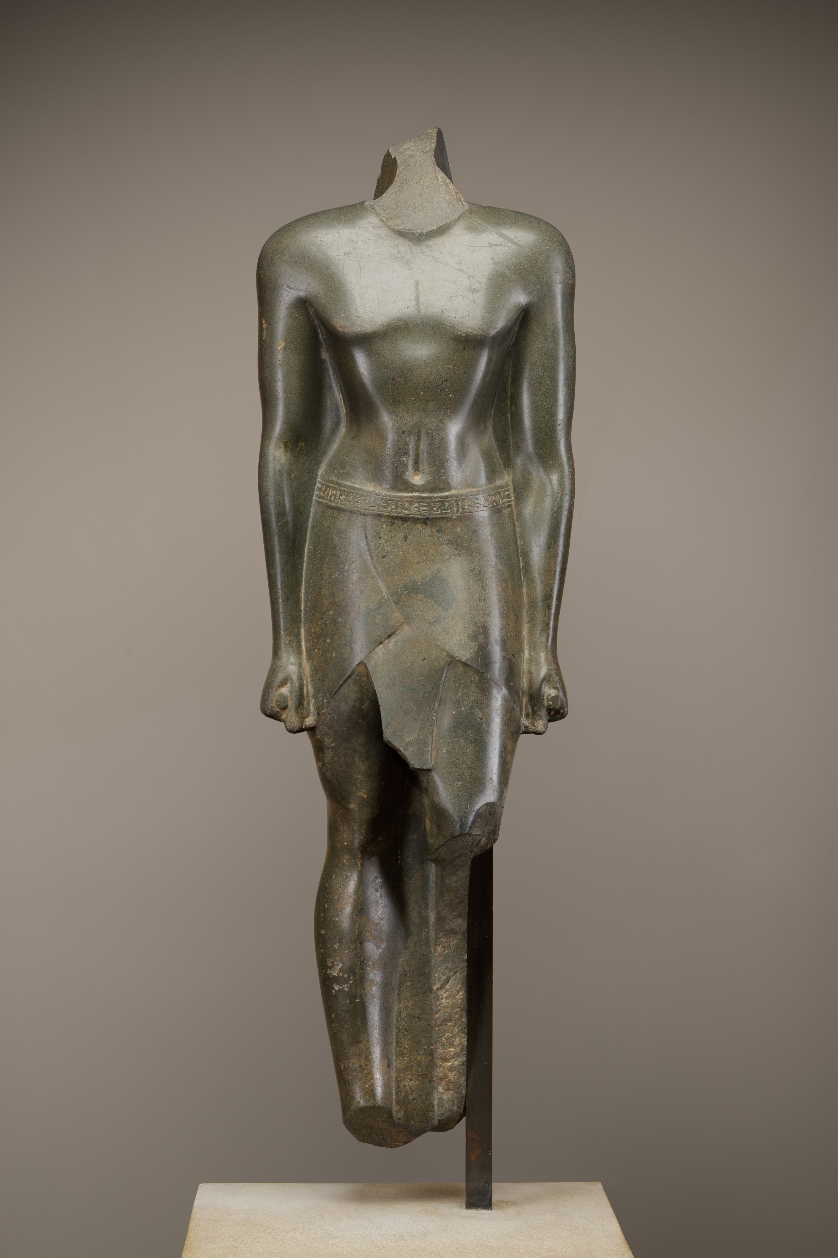 Meta-graywacke statue of the general Tjahapimu, father of pharaoh Nectanebo II. 30th Dynasty, late period. Metropolitan Museum of Art, New York, acc. No. 08.205.1.